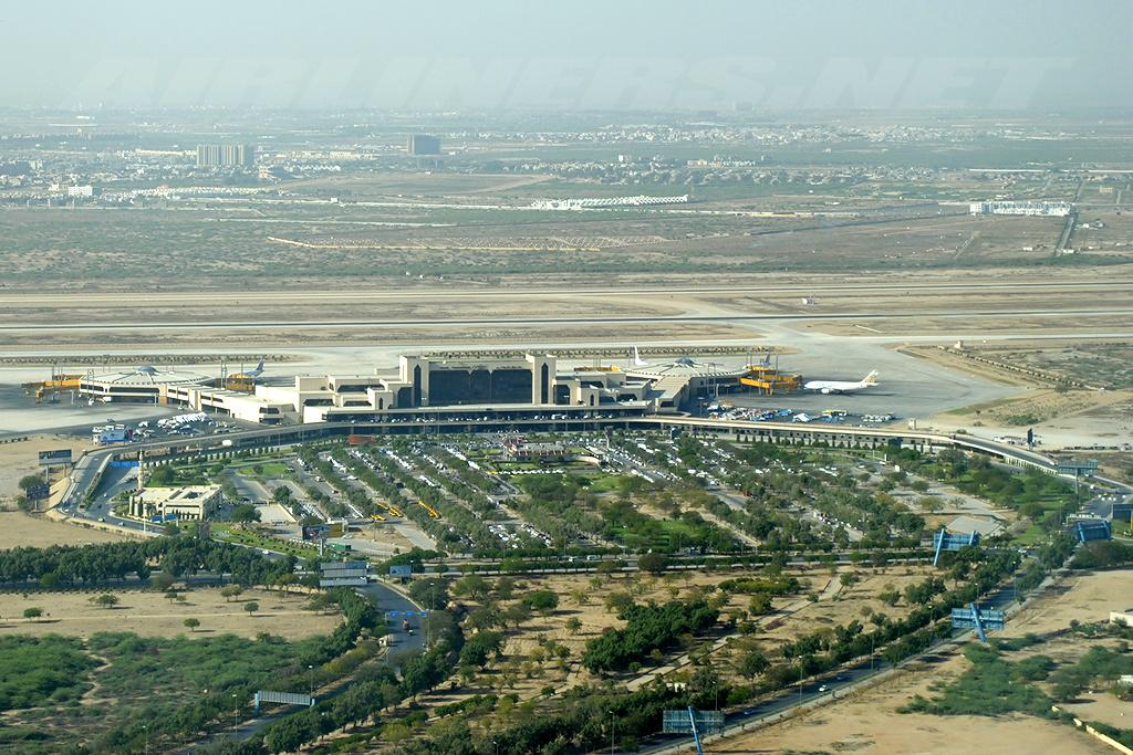 Bird's-eye view of Jinnah International Airport in Karachi, Pakistan